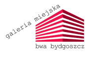 BWA Bydgoszcz logo